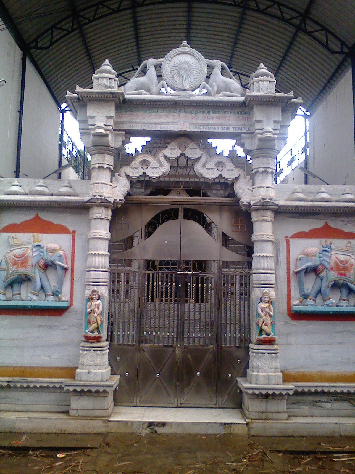 Svetambara Jain Temple சுவேதாம்பரர் சமணக்கோயில்